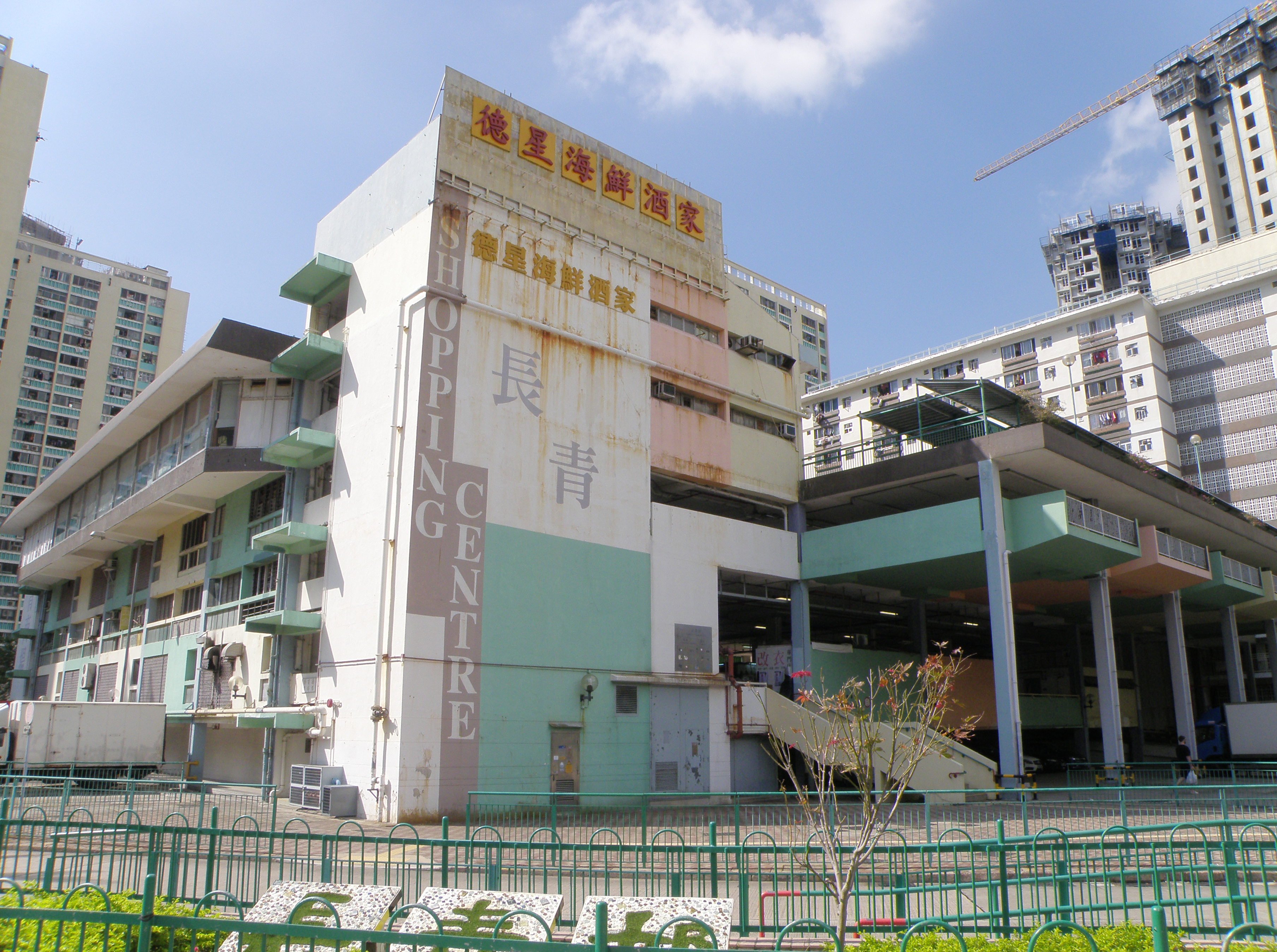 Cheung Ching Shopping Centre in Tsing Yi, Hong Kong.